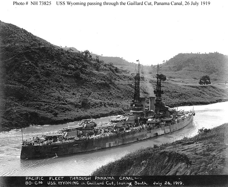 American battleship USS Wyoming (BB-32) transiting the Panama Canal in 1919